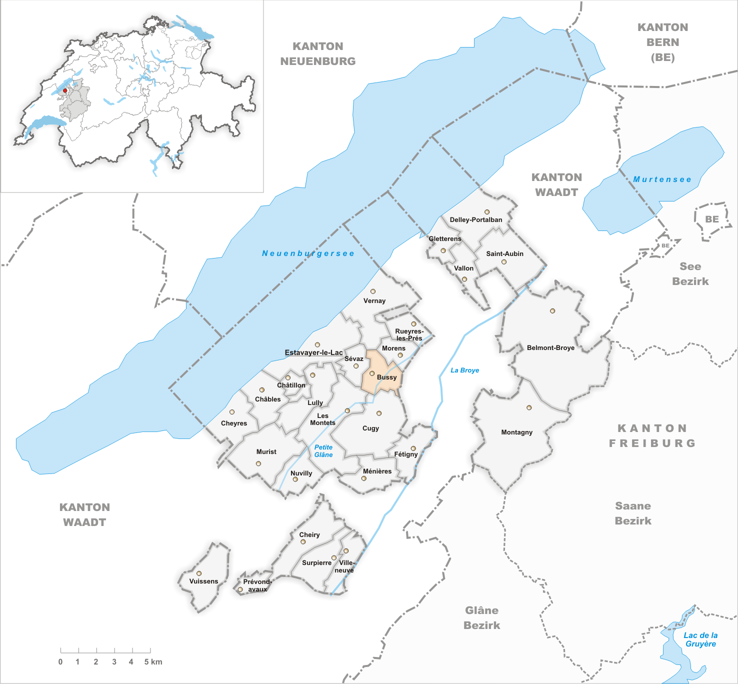 Municipality Bussy